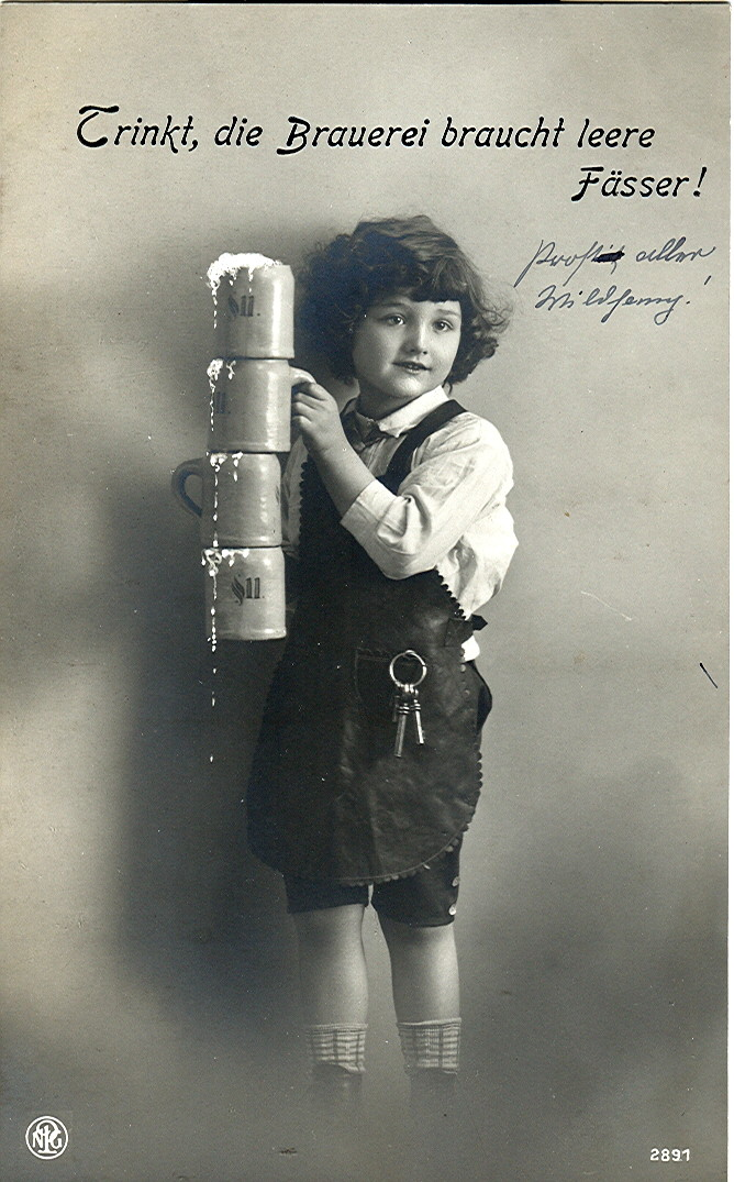 Postcard, undated ( ca.1914 ). Title: "Drink, the brewery needs empty barrels!"